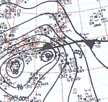 Surface weather analysis map of Typhoon Ida on September 24, 1966